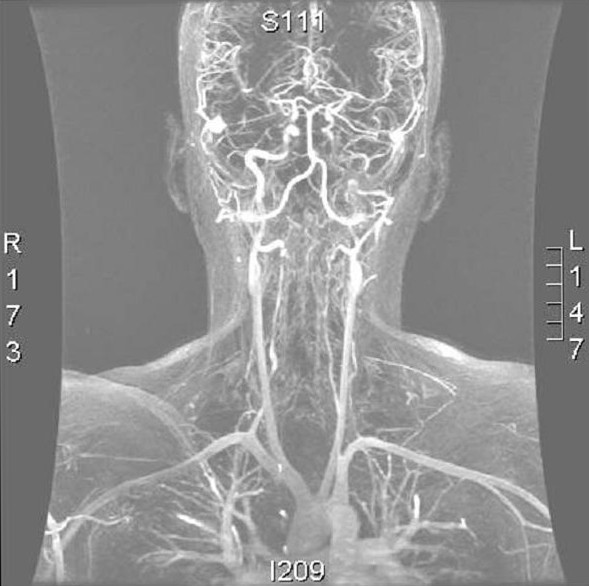 Angio-MRI (coronal section) of the supra-aortic vessels after injection of 20 cc of gadolinium in a woman aged 24 with EDS type IV, revealing a dissecting haematoma of the left internal carotid (black arrow), a bilateral dissection of the vertebral arteries in their V1 and V2 segments (white arrows) and a dissection of the middle and distal third of the right subclavian artery (head of arrow).